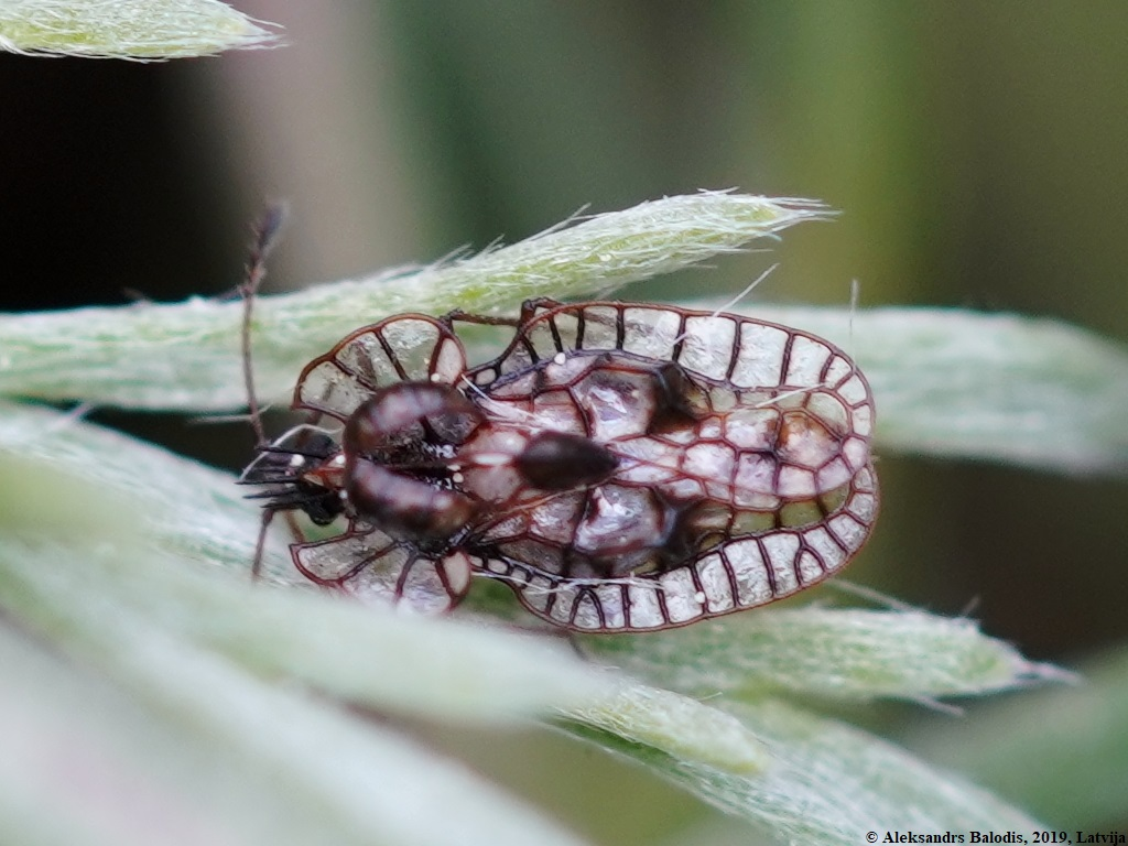 Galeatus affinis